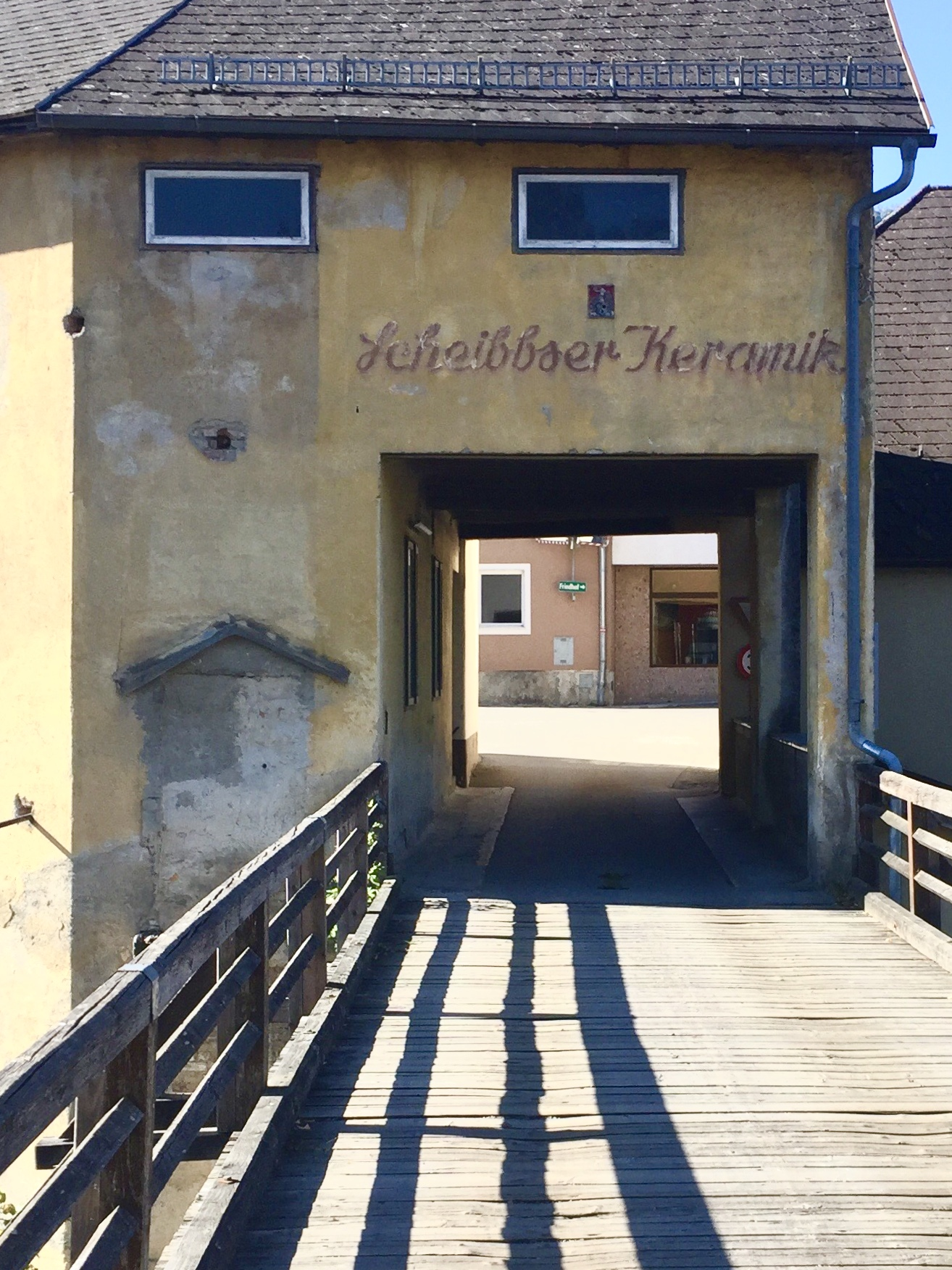 Heubergbrücke Scheibbs